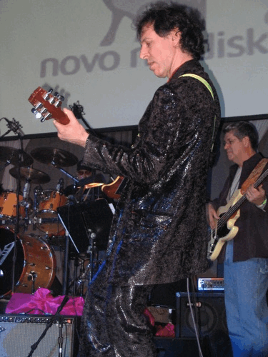 Jon Tiven - Live in Concert (photo by Scott Dudelson)